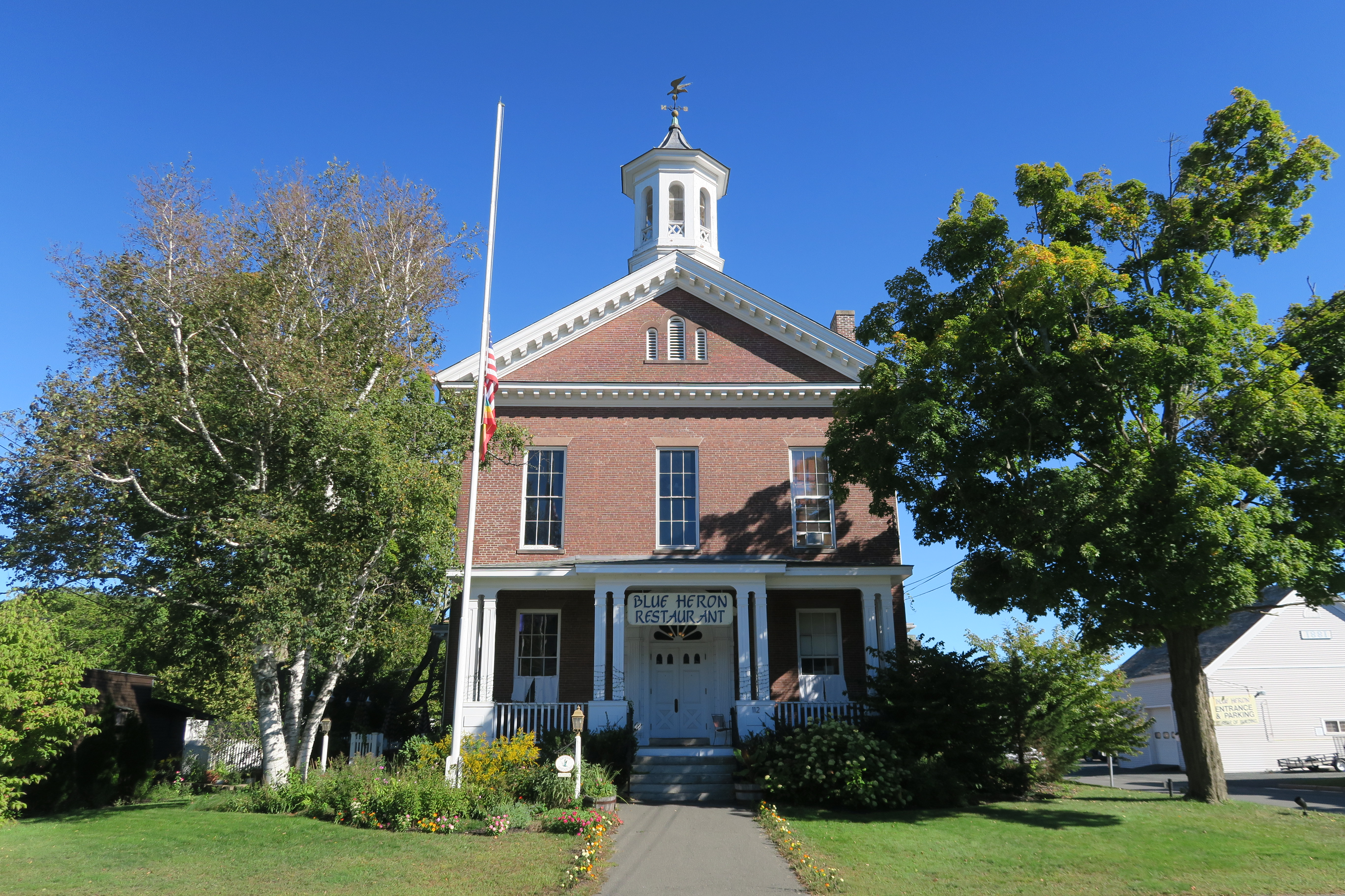 Blue Heron, Sunderland Massachusetts